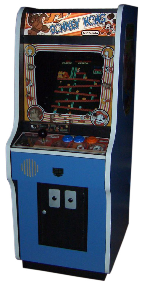 Donkey Kong arcade at the QuakeCon 2005, without the background